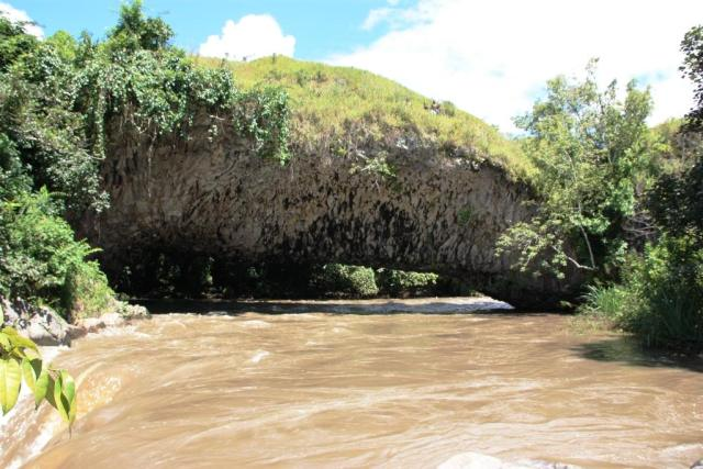 Darala Mungu natural bridge over Kiwira river near Tukuyu, Tanzania